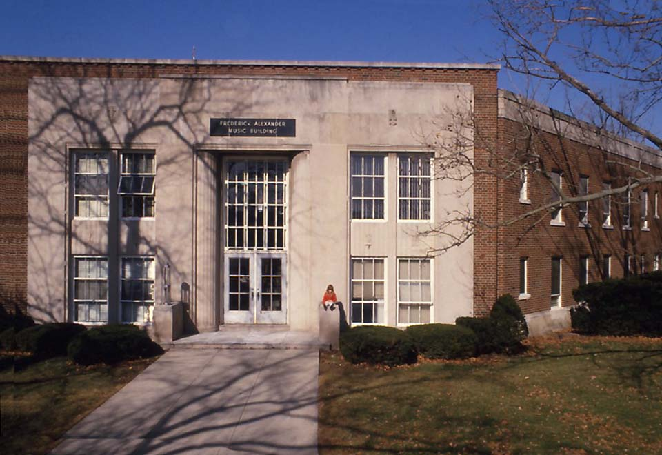 Alexander Hall, EMU, destroyed (b. 1939, R Gerganof, architect)